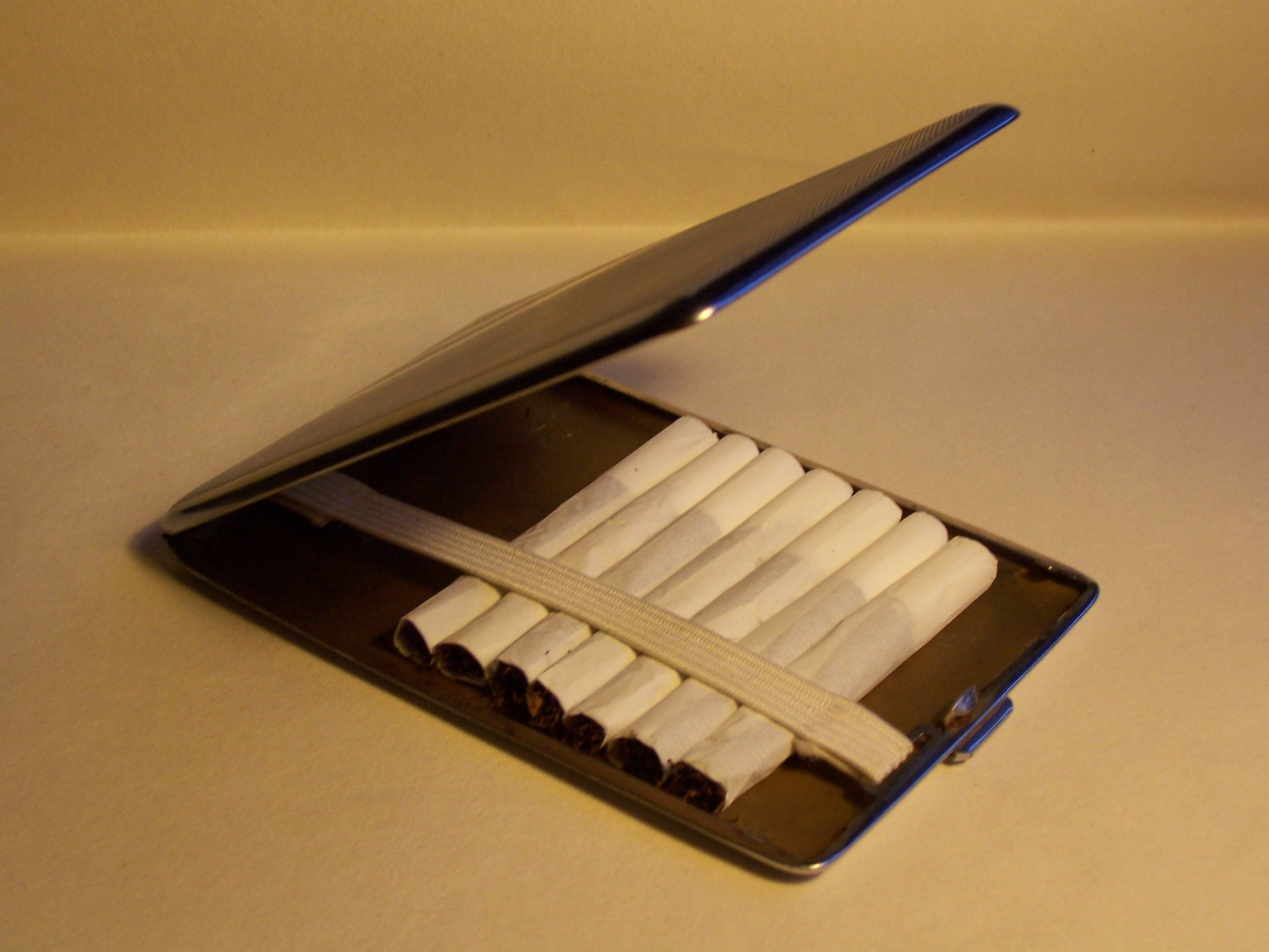 Metal pocket cigarette case